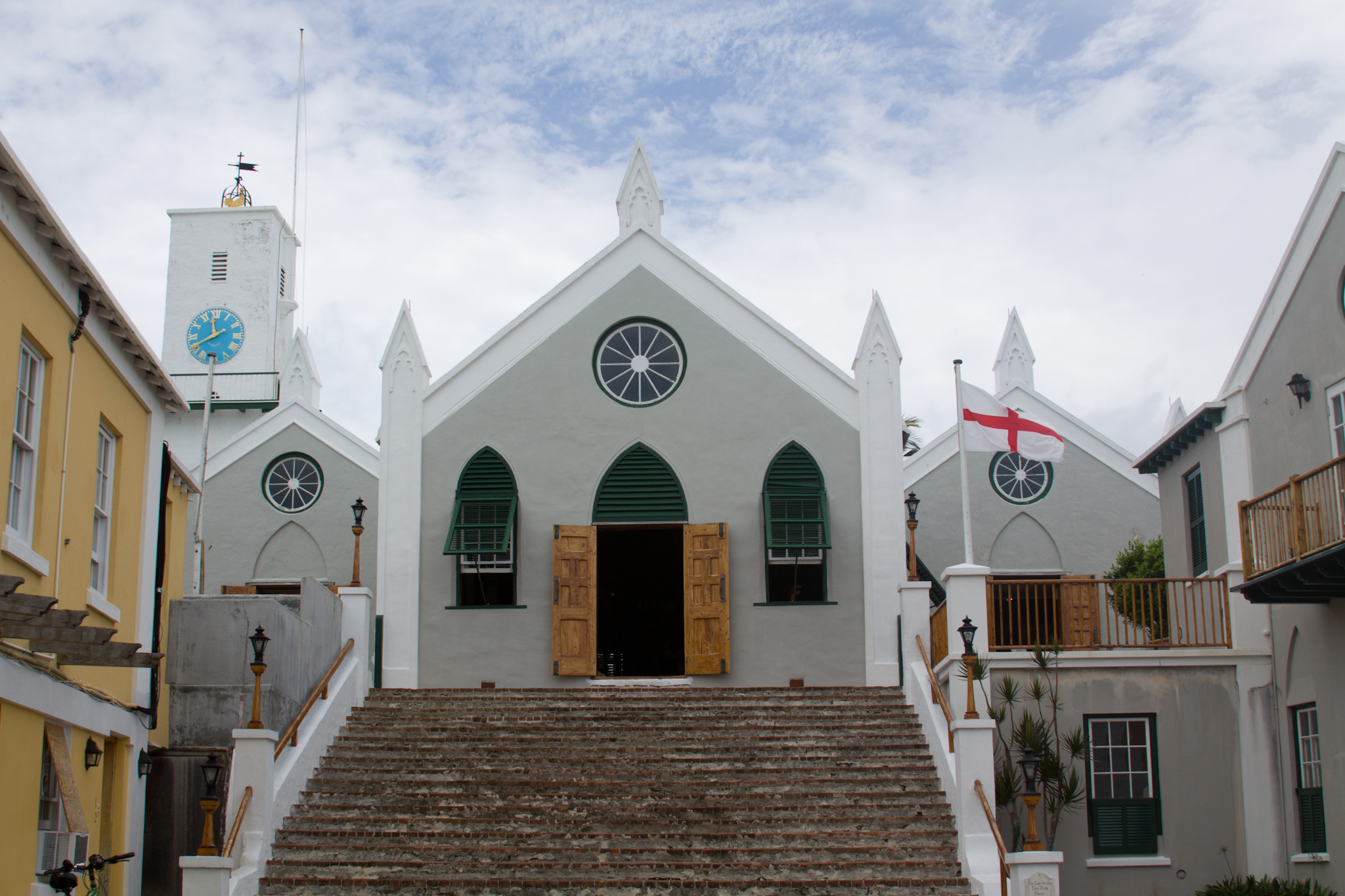 View of front of St. Peter's Church, St. George's, Bermuda. The church's clock tower is visible at left.